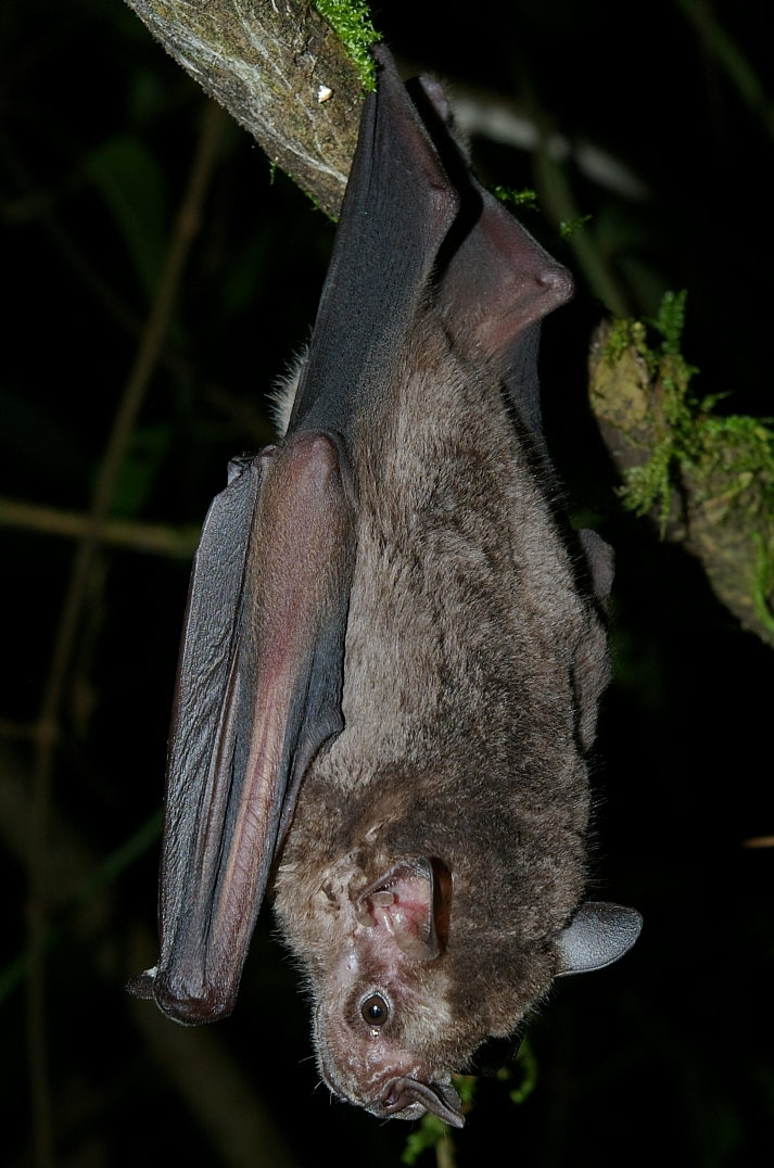 Jamaican fruit bat (Artibeus jamaicensis)